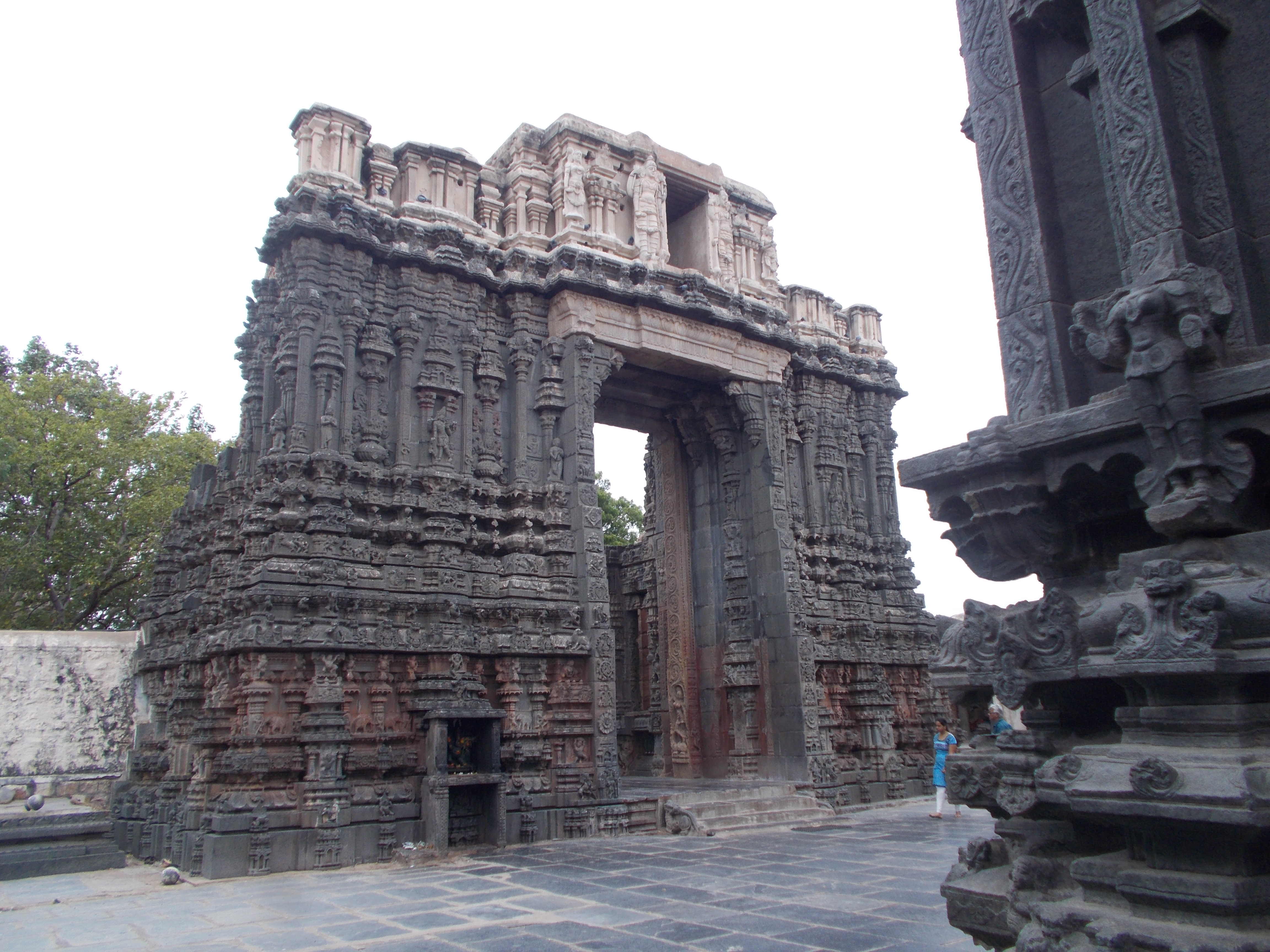 Bugga - Unfinished Temple Gopuram